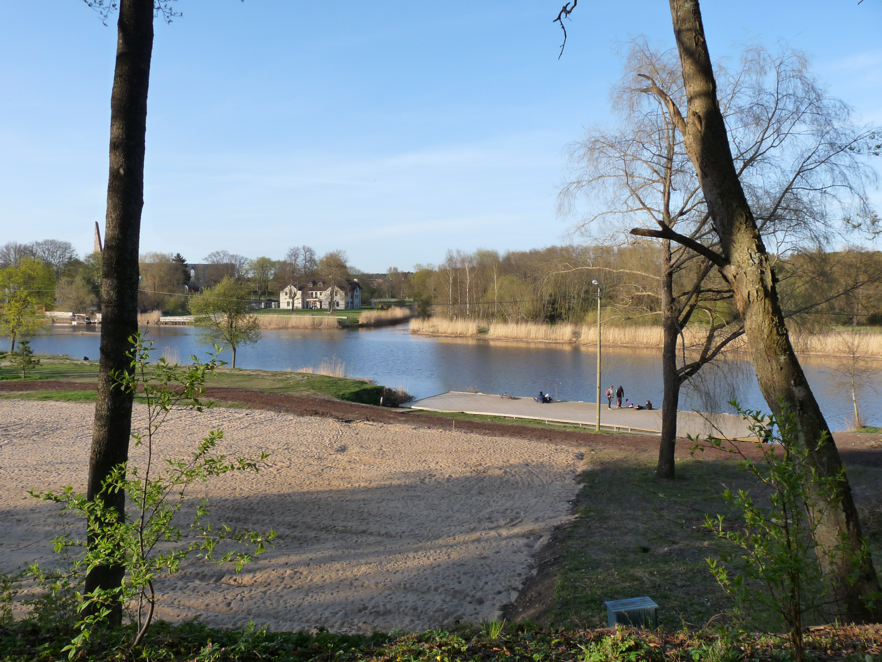 View to the Pirita River in Tallinn